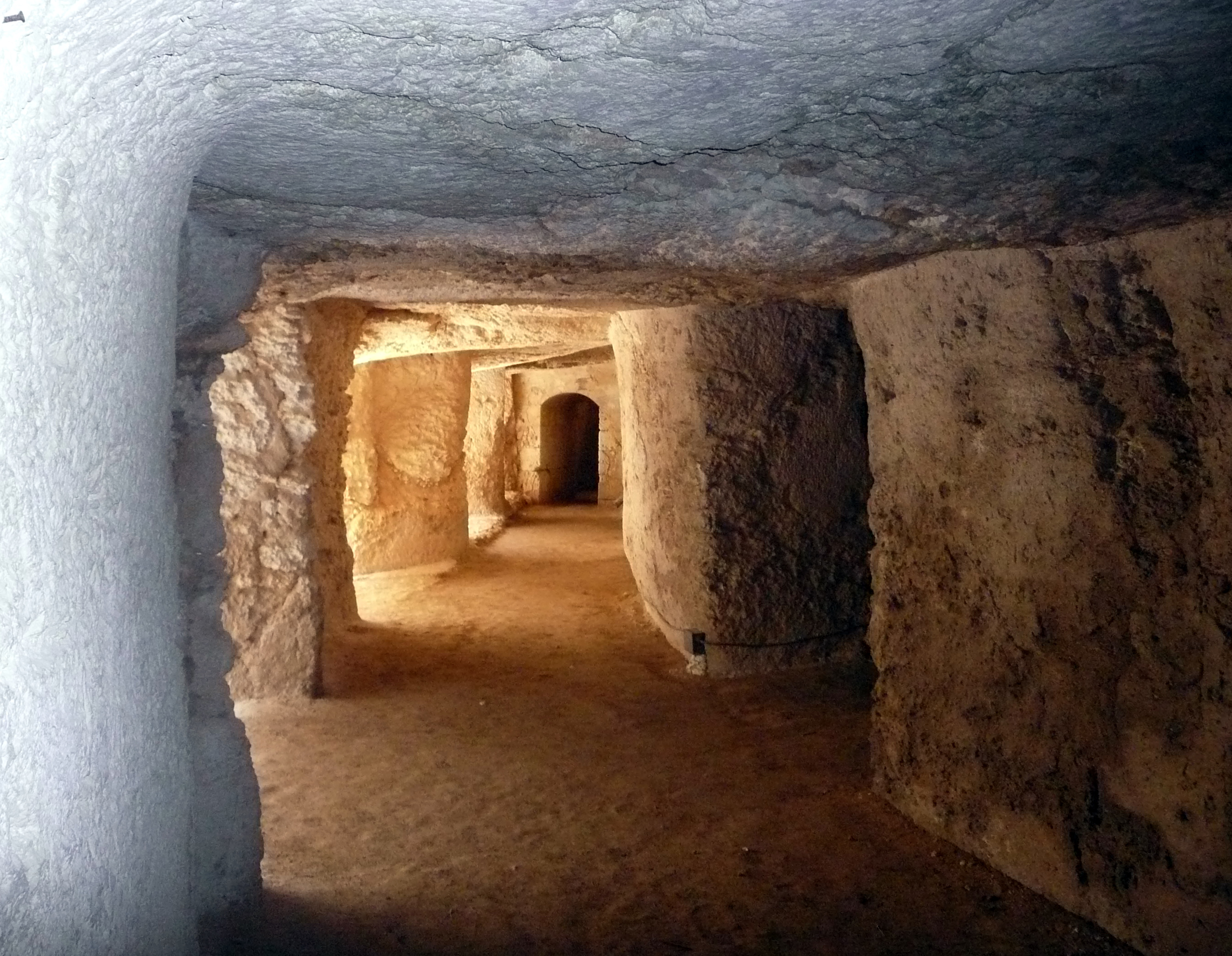 Underground of the castle Eurialo